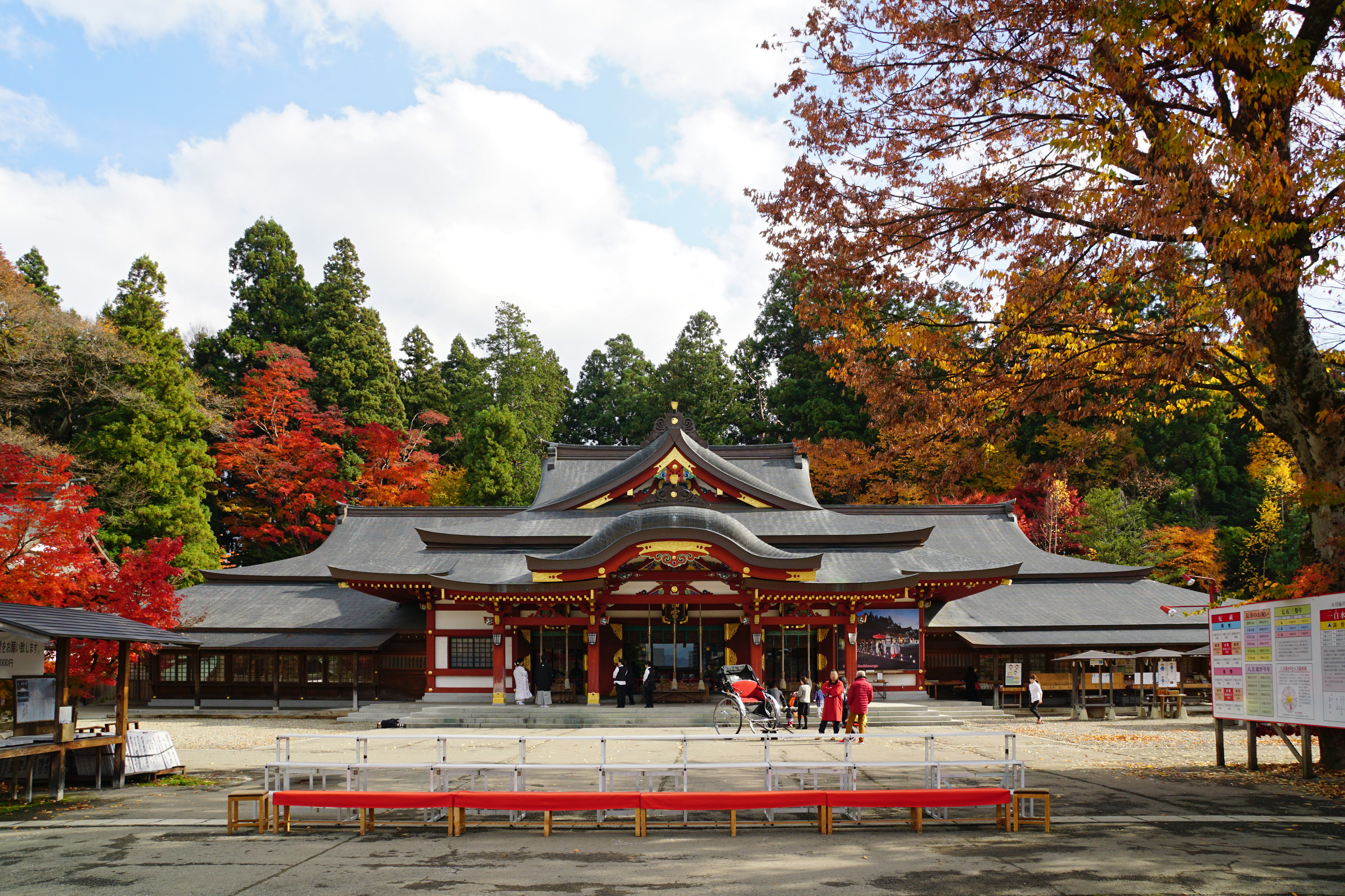 Morioka Hachimangū in Morioka, Iwate prefecture, Japan